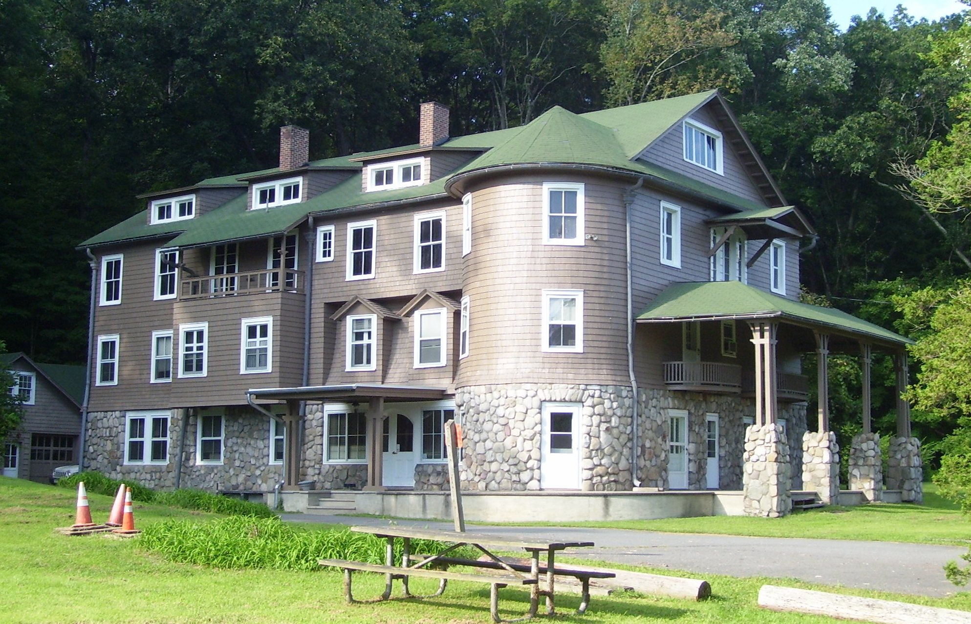 "Arisbe", the home of logician, scientist and philosopher Charles S. Peirce from 1887 to 1914, was built in 1854 and remodeled by Peirce to his own design. It is located between Milford and Matamoras, Pennsylvania.